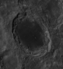 Oblique view of Lomonosov, on the far side of the moon. North is at top.